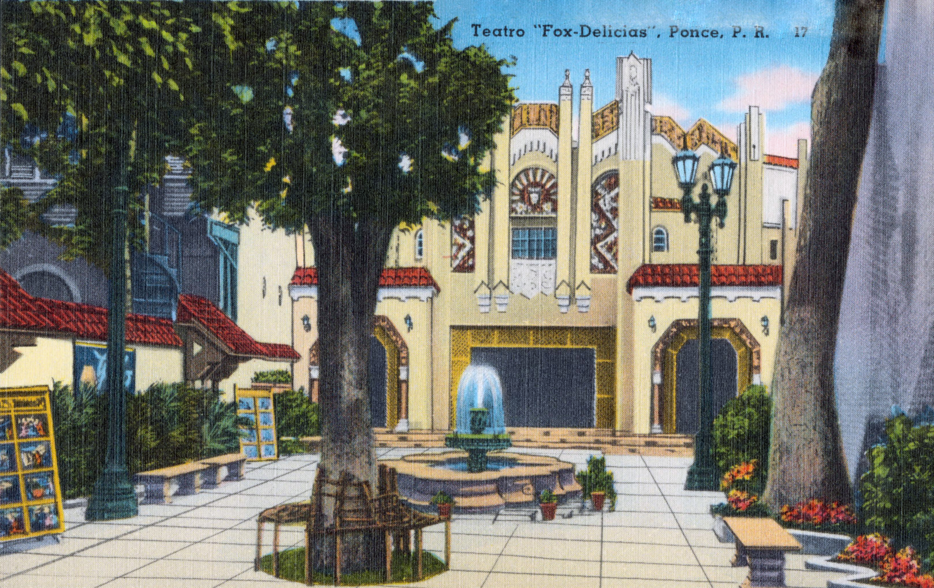 Postcard of the Teatro Fox Delicias (opened 1931), Ponce, Puerto Rico; Matias Photo Shop, San Juan, P. R.; 17